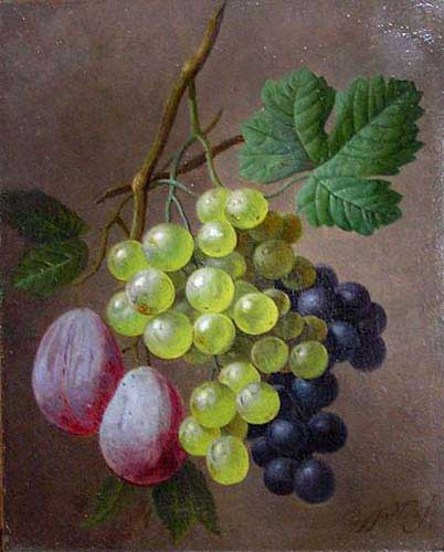 A Still Life with Grapes and Plums